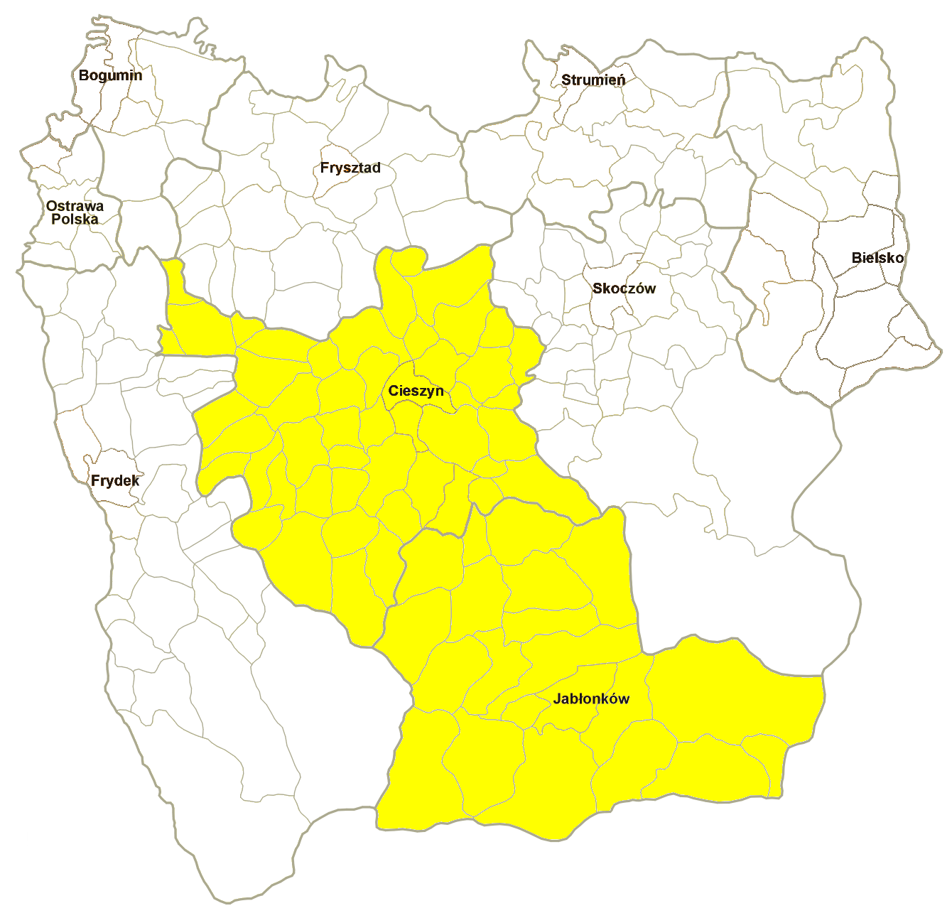 Teschen Political County in 1910 in eastern part of Austrian Silesia (Cieszyn Silesia)